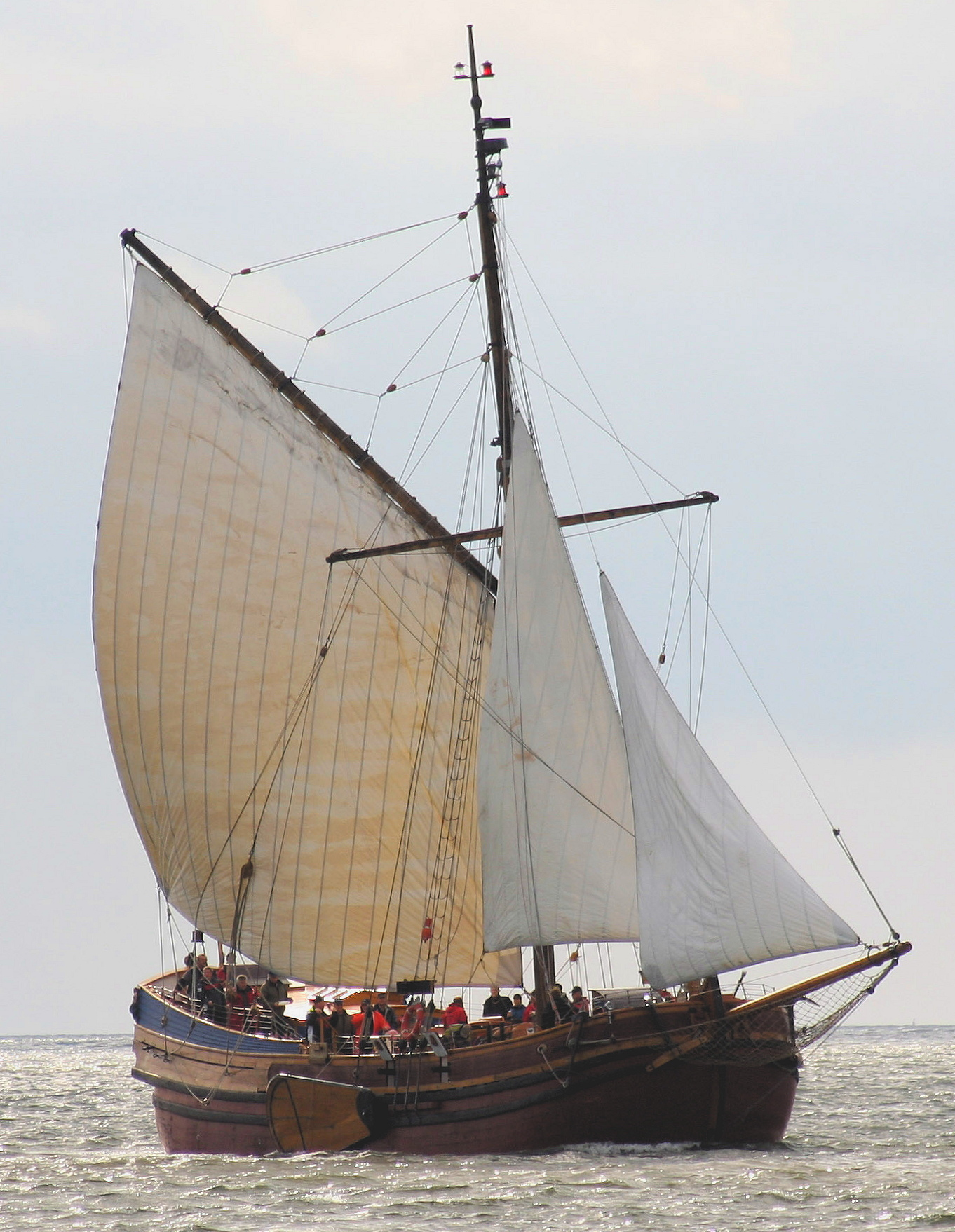 A picture when Christine af Bro sailing for the first time.